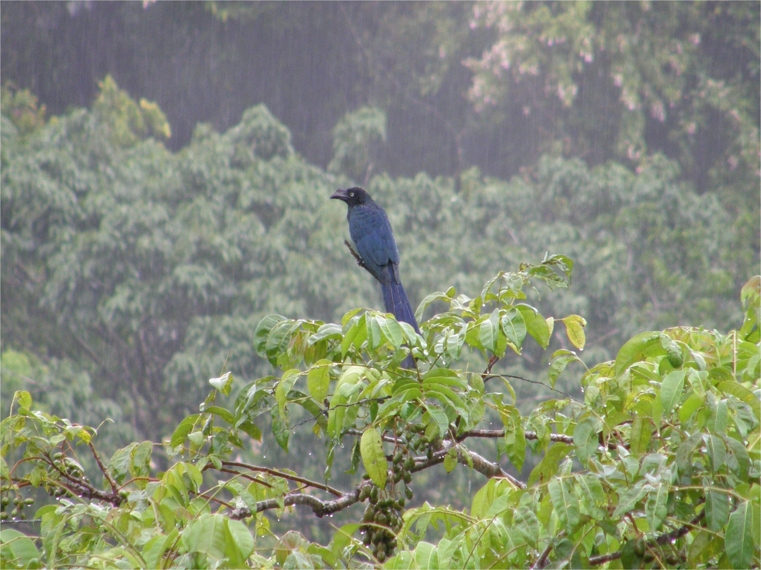 One from a little flock that came by the BCI harbor in the early afternoon rain. Take a look at the large size to see the interesting bill. New one for me!